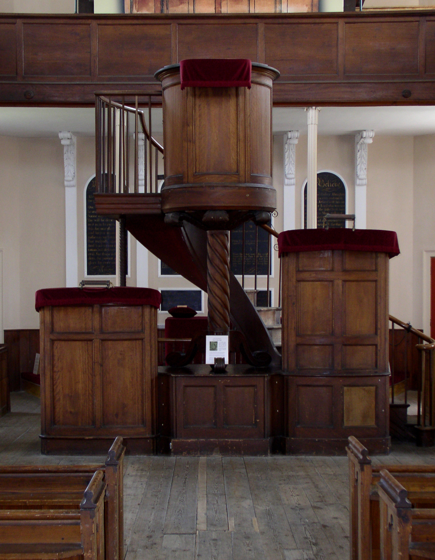 Three-decker pulpit in St John the Evangelist's parish church, Chichester, West Sussex